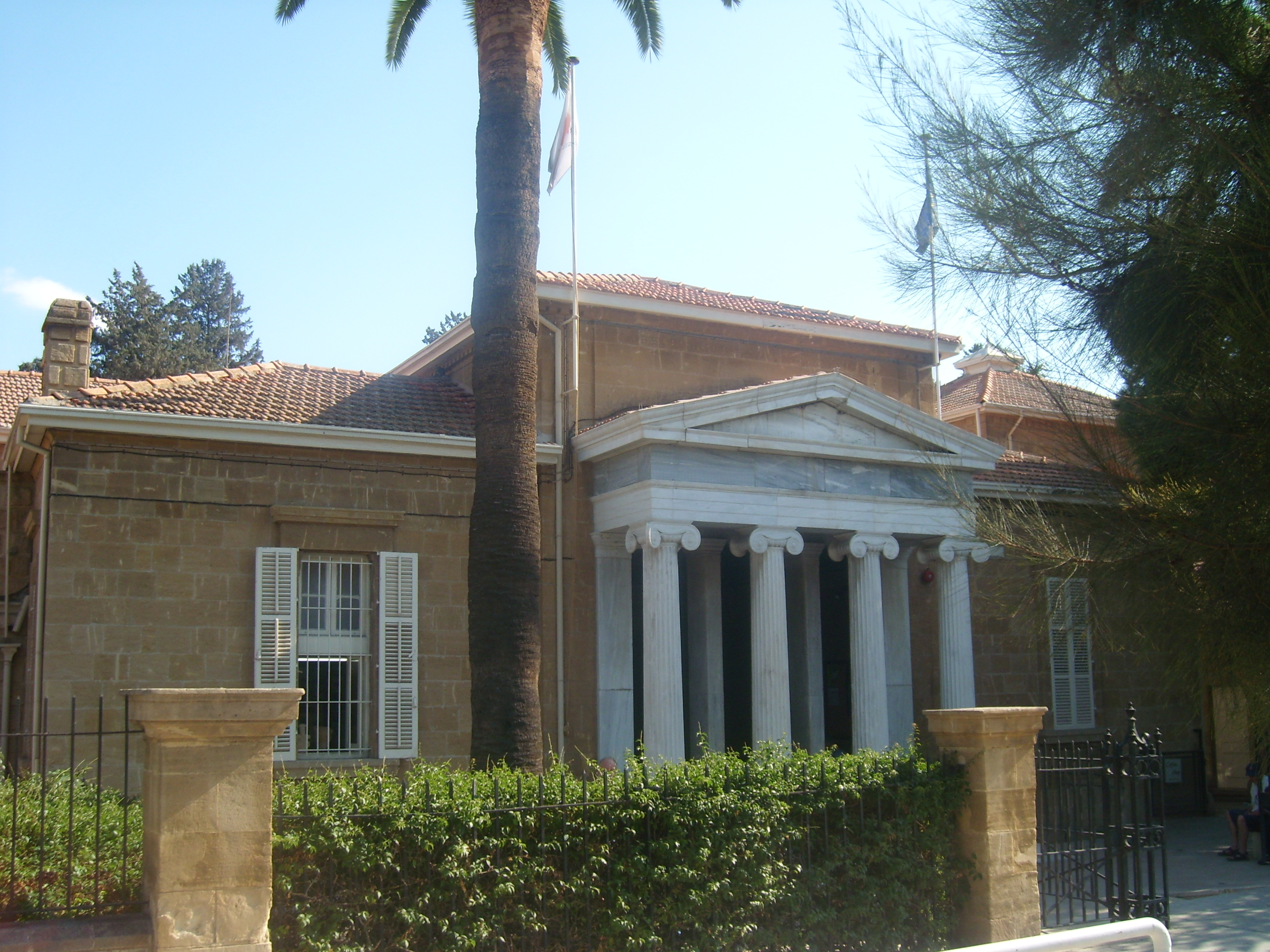 The Cyprus Museum in Nicosia